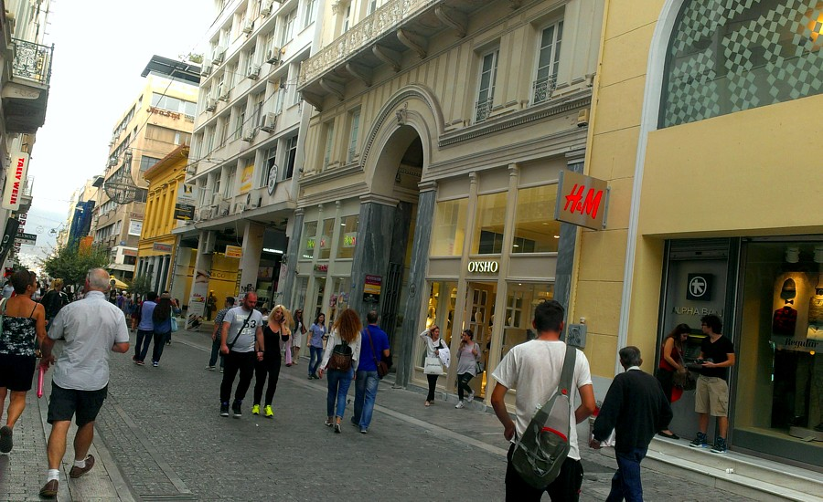 ermou